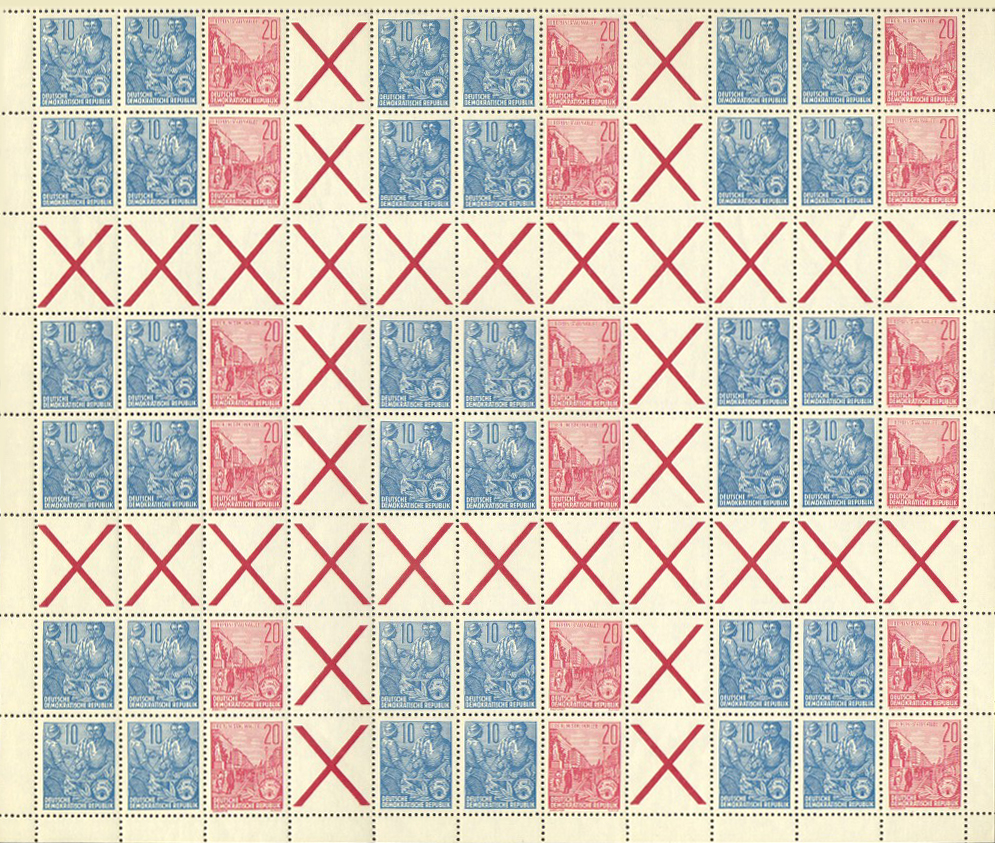 Postage stamp miniature sheet of GDR with gutters, 10 Pf and 20 Pf, 1953